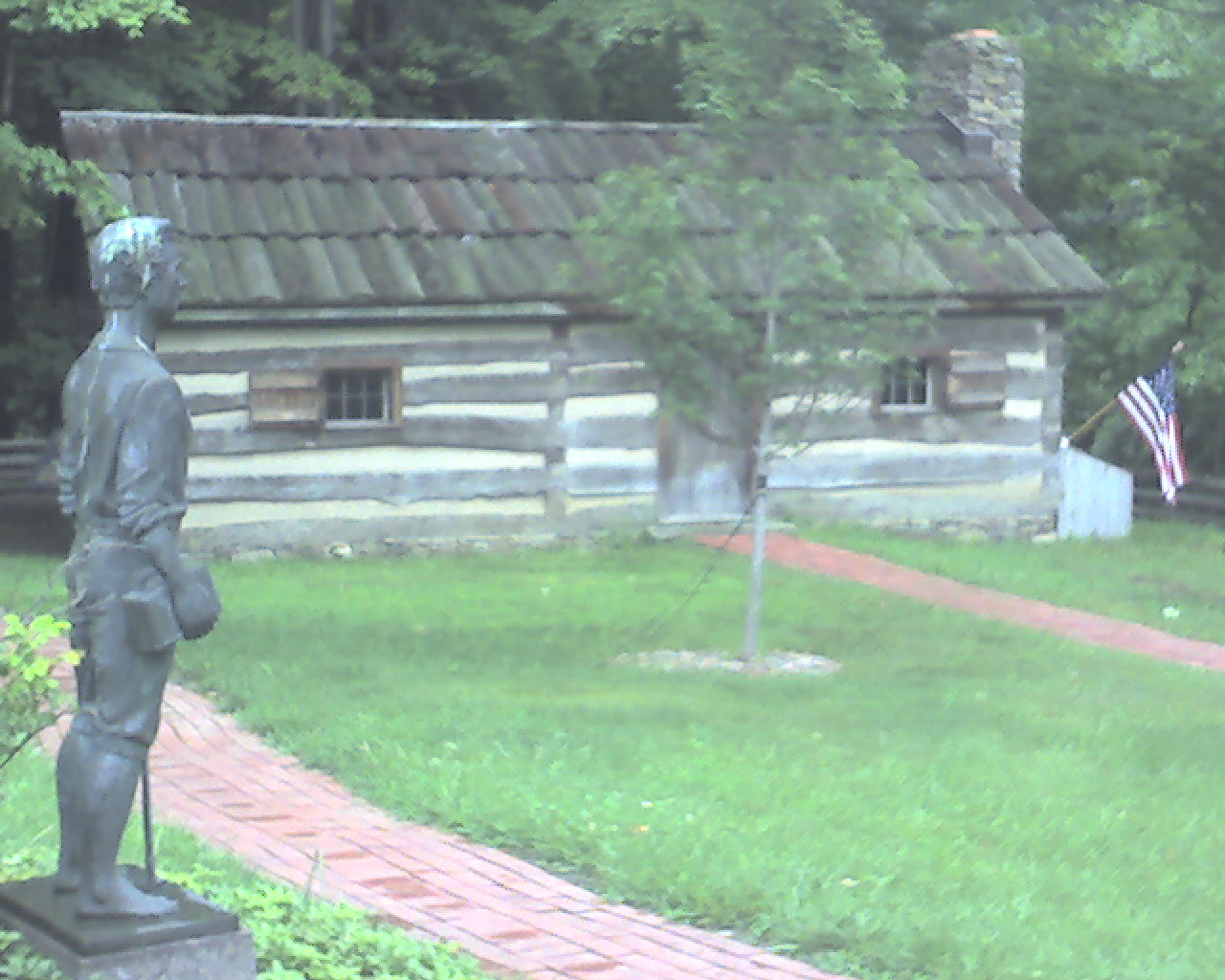 Moreland Hills, Ohio - President James Garfield birthplace - log cabin replica and statue